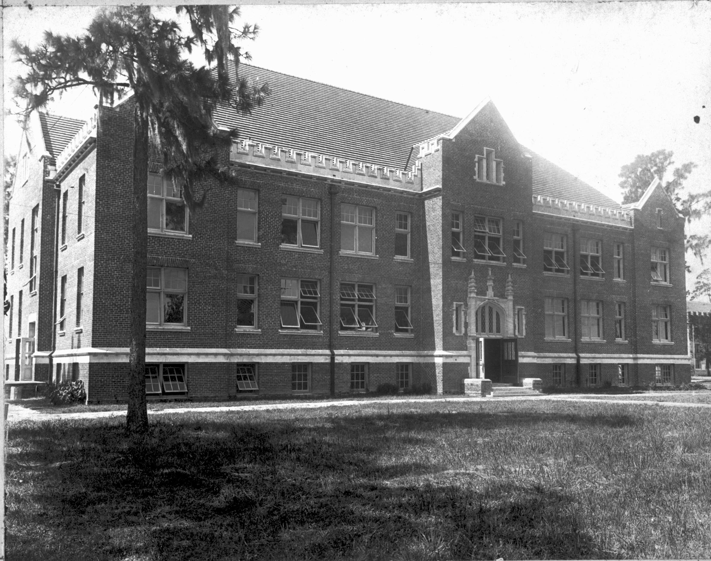 A historic photo of Flint Hall